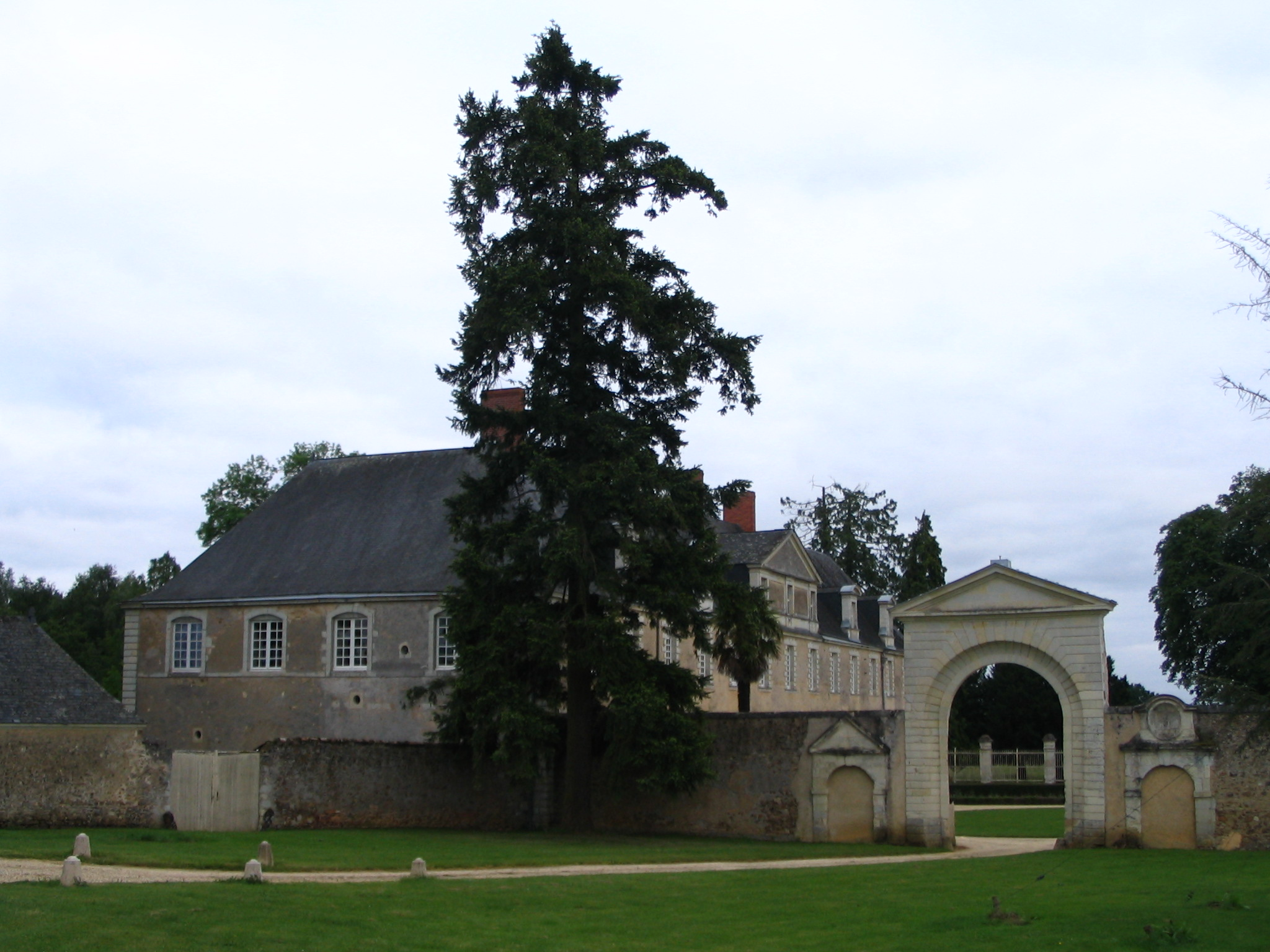 Perray castle, in Précigné, Sarthe, France.